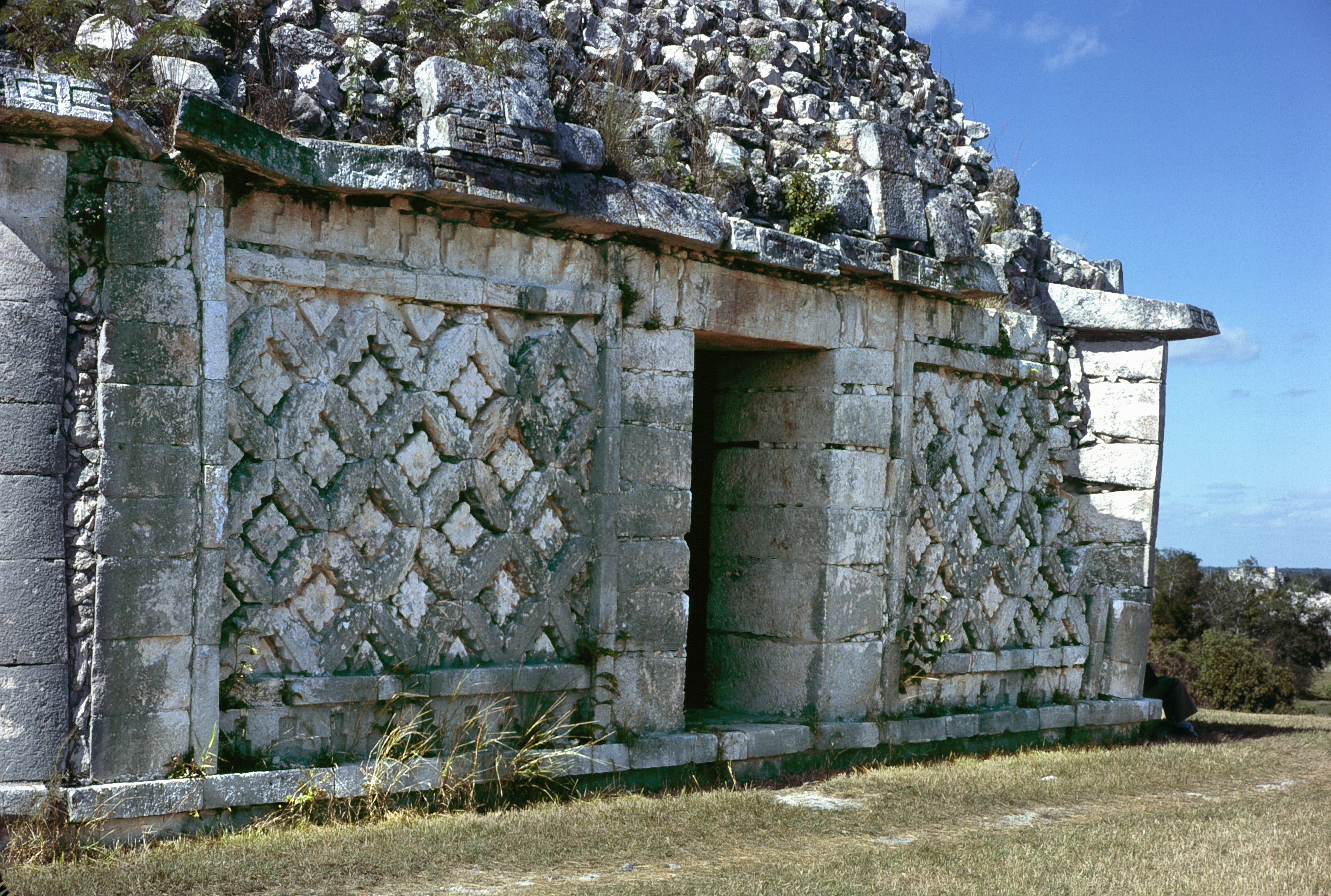 Chichen Itrza, Yucatan, Mexico: MOnjas, 2nd storey